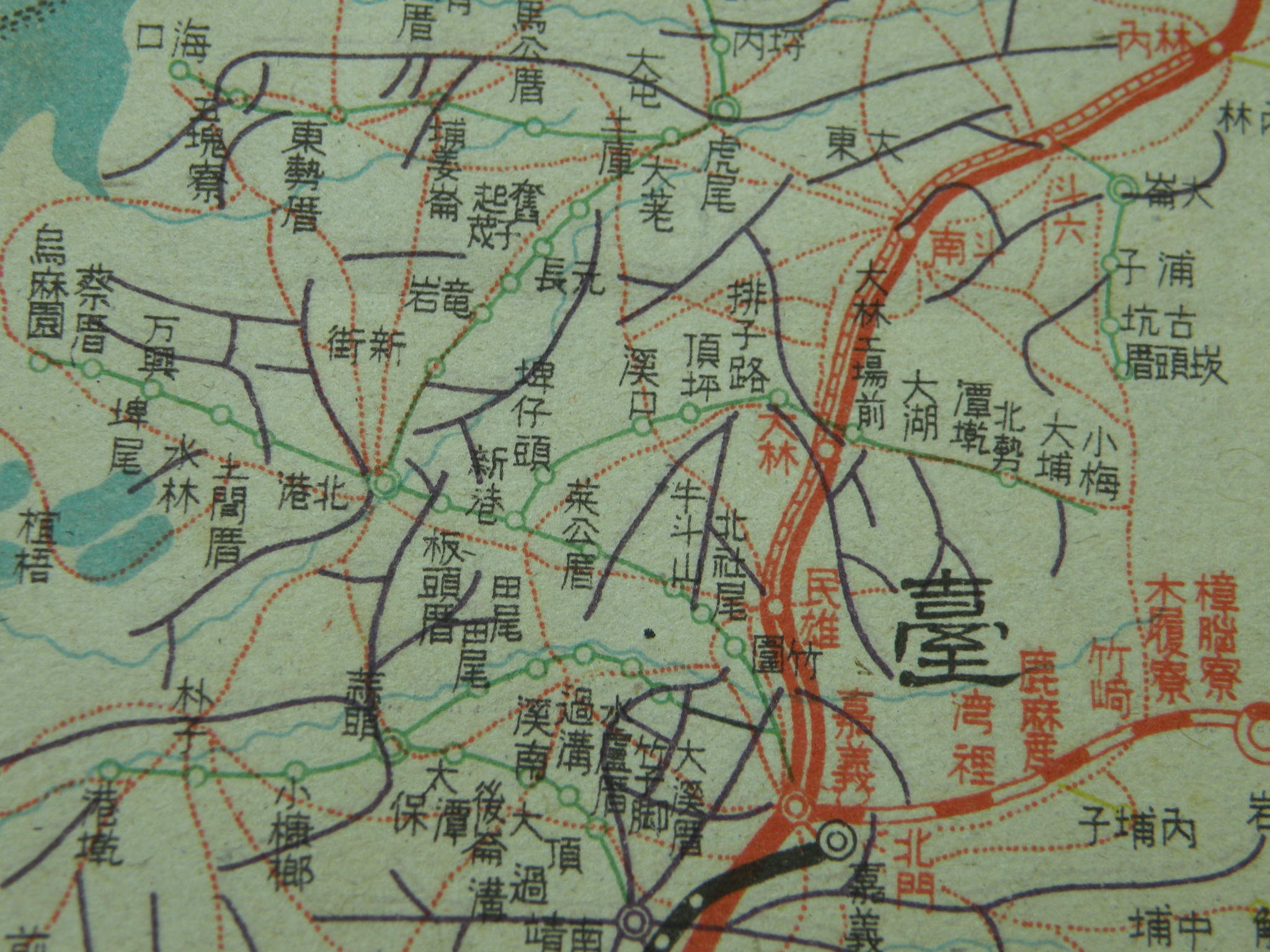 Railway Map of Hokko-kun(北港郡), Kobi-kun(虎尾郡) and Kagi-kun(嘉義郡), in Tainan-shu, Taiwan, Japan.